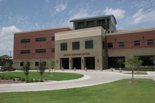 TTC Health Sciences Campus